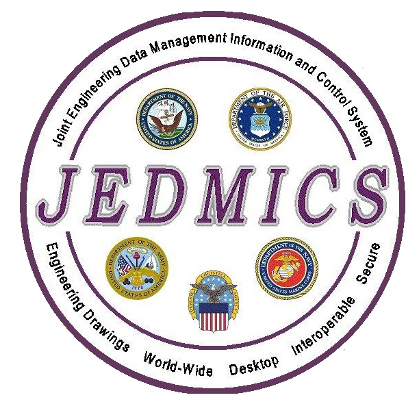 This is a JEDMICS Logo